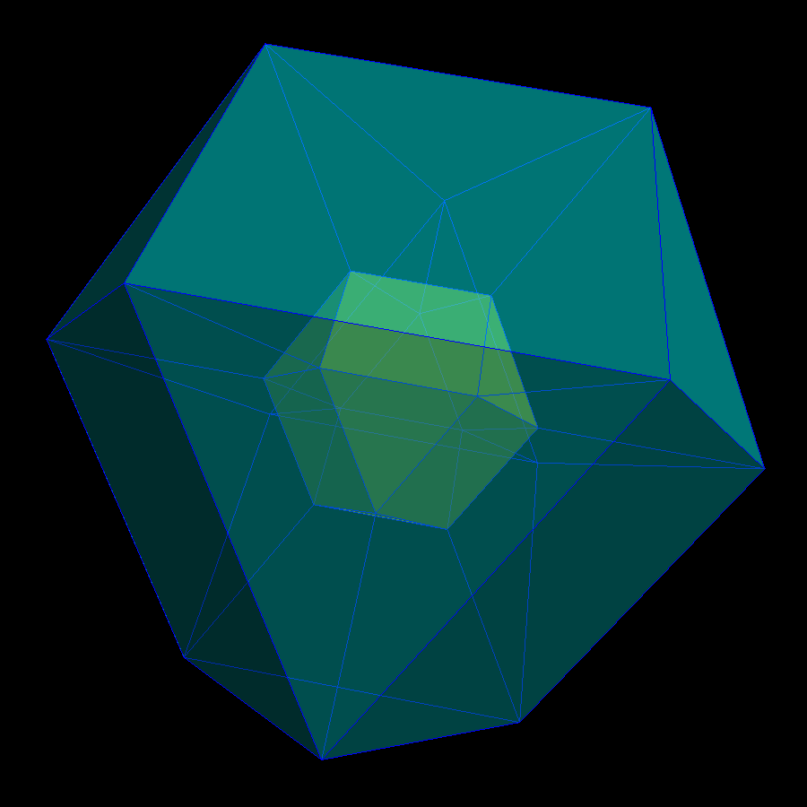 Cuboctahedral hyperprism